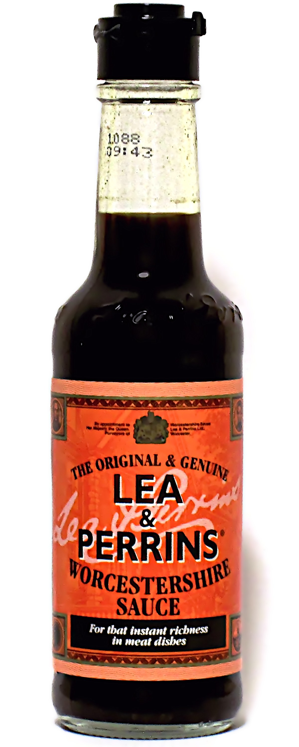 Lea & Perrins Worcestershire sauce (150ml).